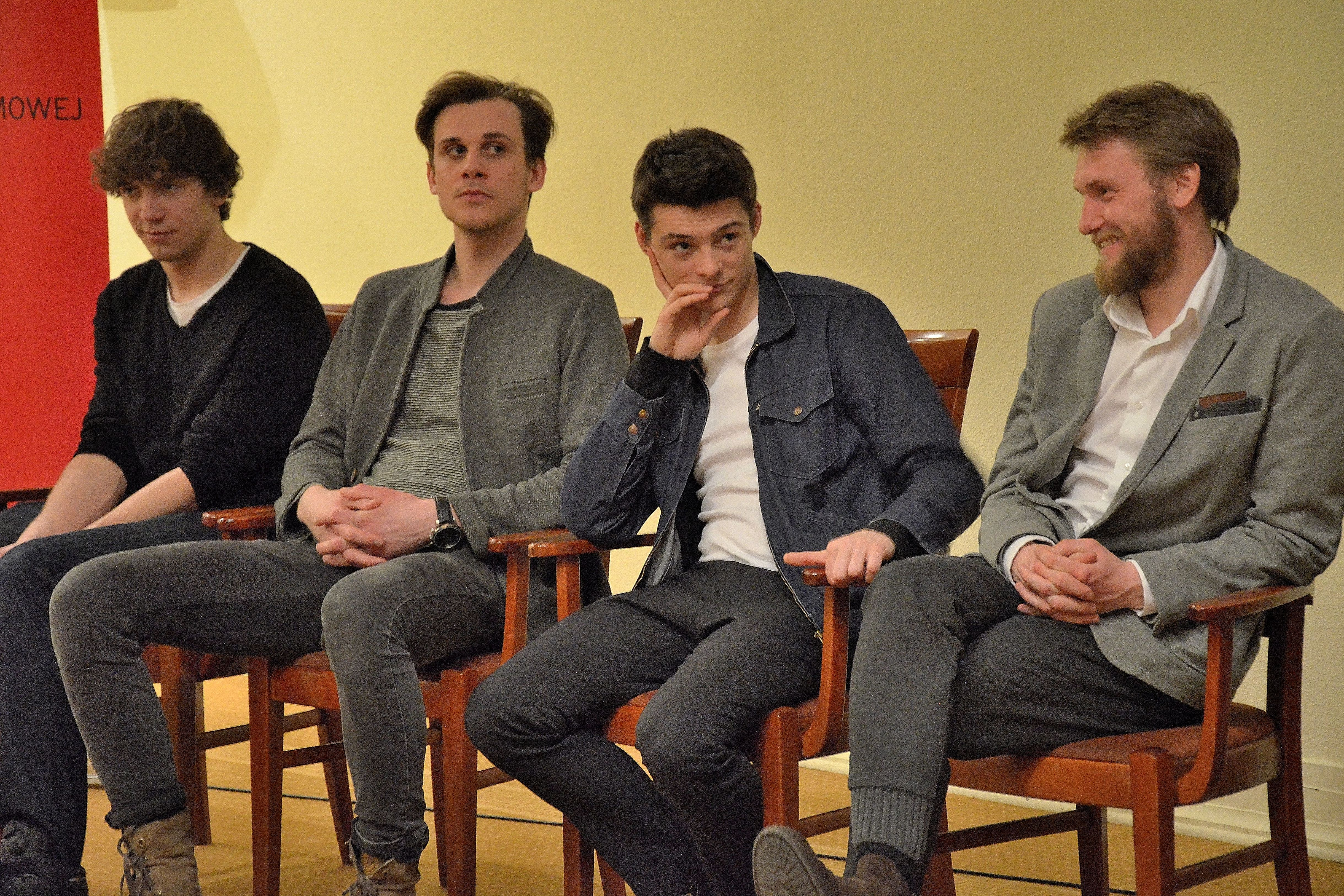 (pictured from left) Kamil Szeptycki, Marcel Sabat, Tomasz Ziętek and Karol Górski during a meeting organized by the Polish Film Institute in a series "Polish film in national culture" dedicated to Kamienie na szaniec. Conference hall in the New Deputies' House in the Sejm